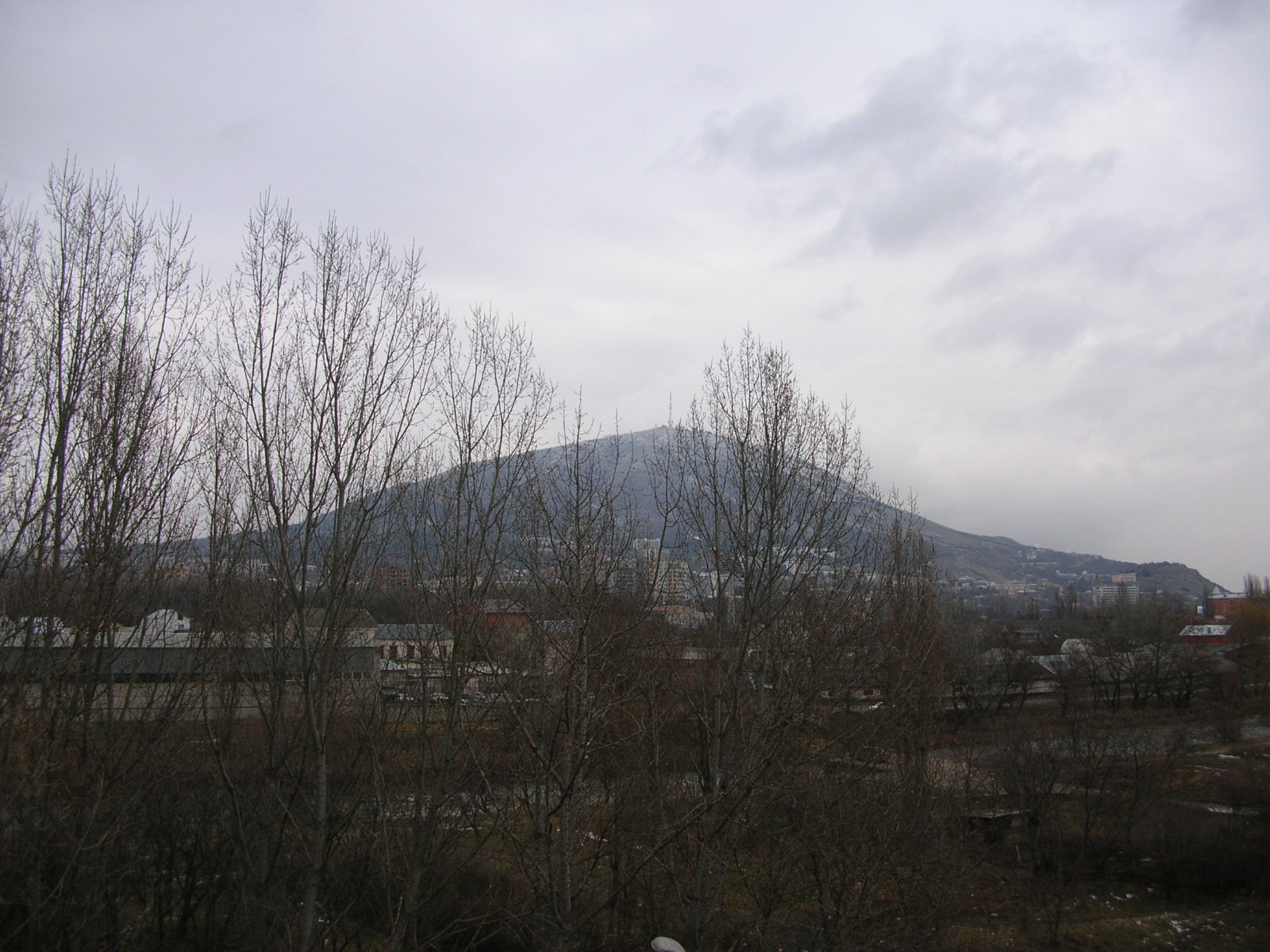 Mt.Mashuk as seen from Pyatigorsk, 2007